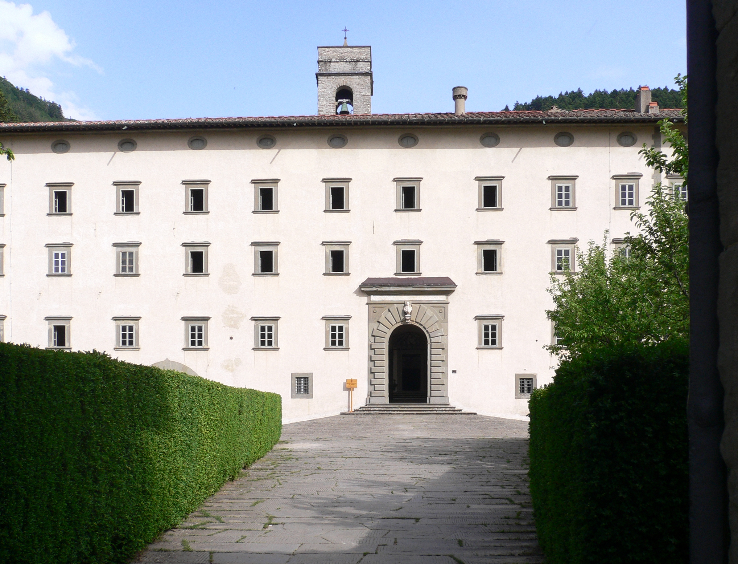 cloister in Vallombrosa, community of Regello